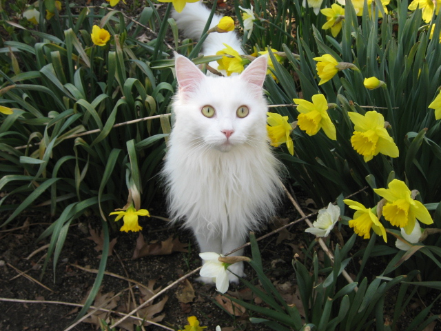 Miss Phoebe McFadden of Foxbrook is a solid white two year-old Maine Coon with a prominent "ruff" or "majestic area." She is quite vocal and trills her meows when happy, startled or if she's disturbed while sleeping. Phoebe frequently strikes poses, a characteristic she most likely inherited from her show cat father, Diggary Dude of Foxbrook.